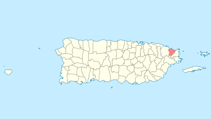 Municipal locator of Puerto Rico